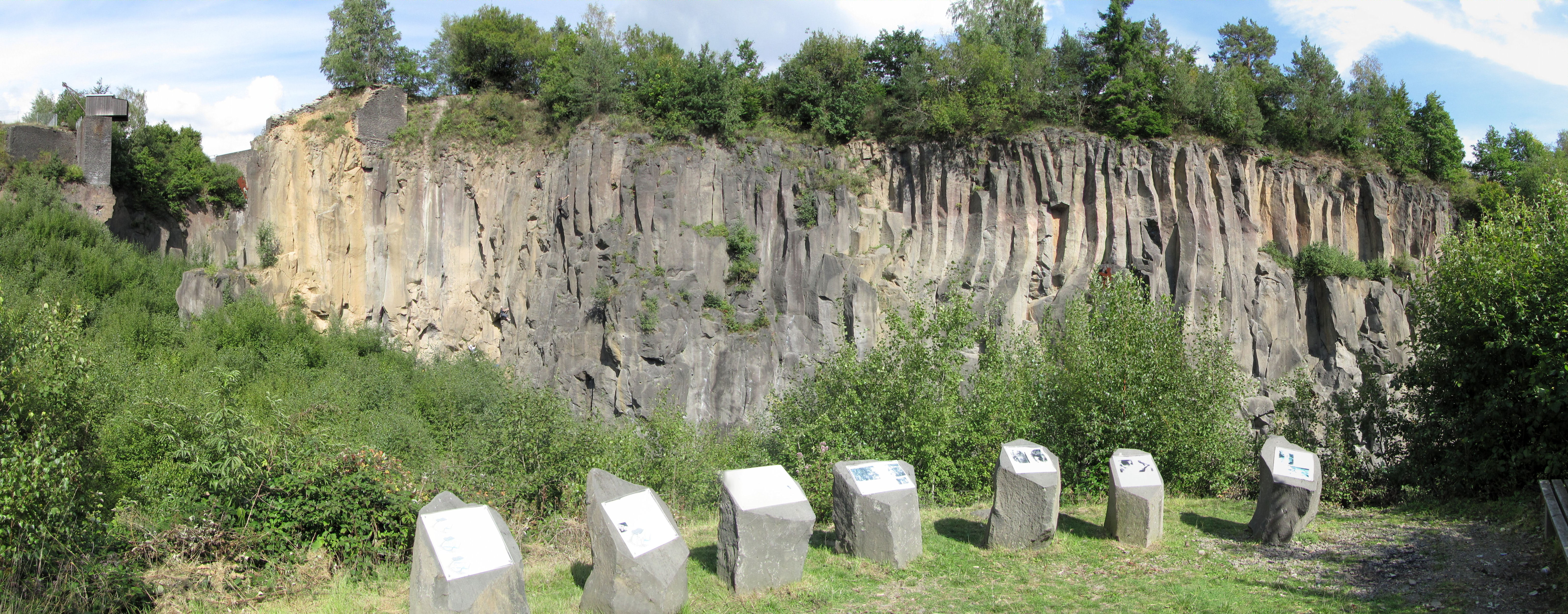 Panorama of Ettringer Lay